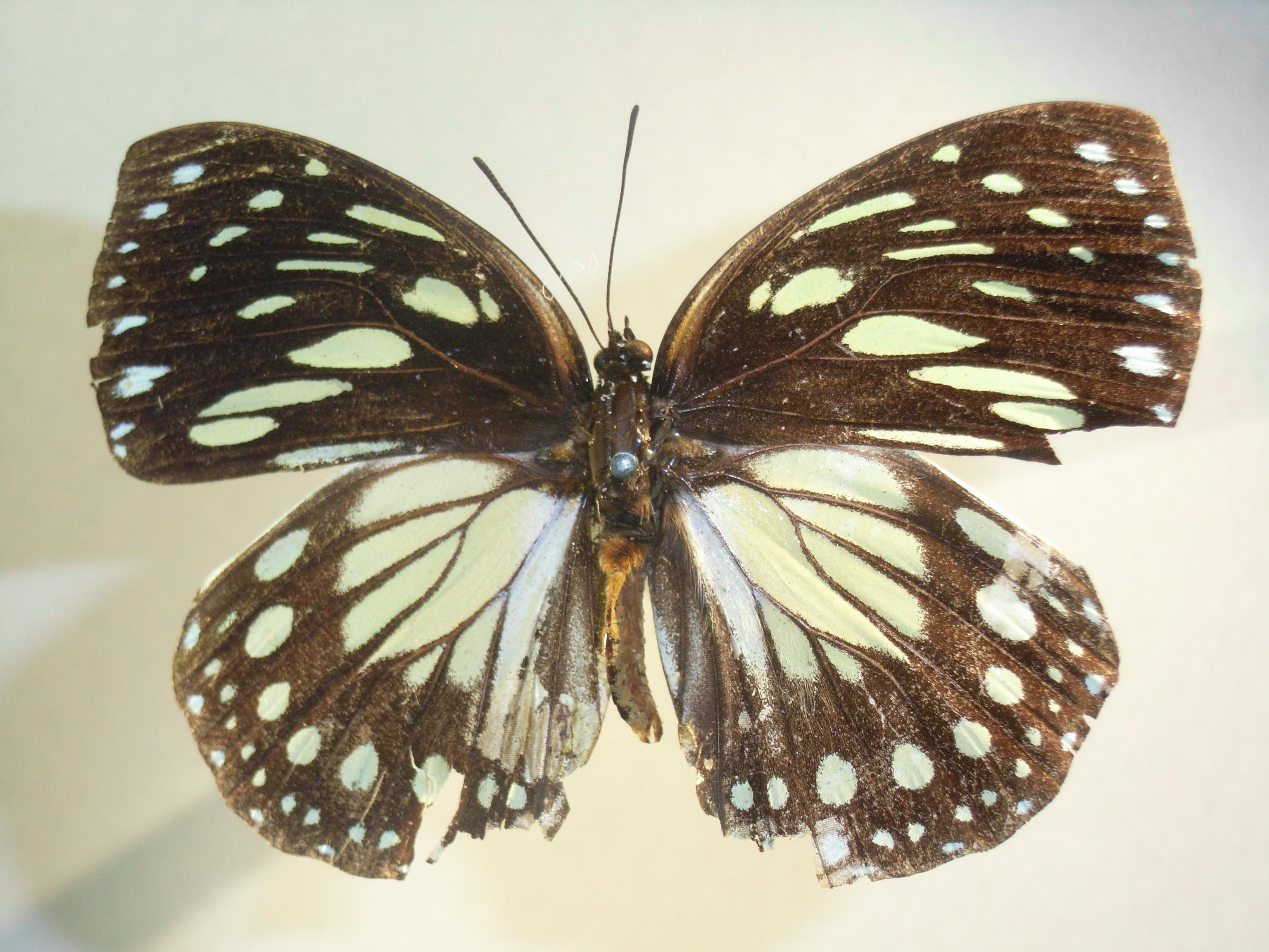 Euxanthe crossleyi